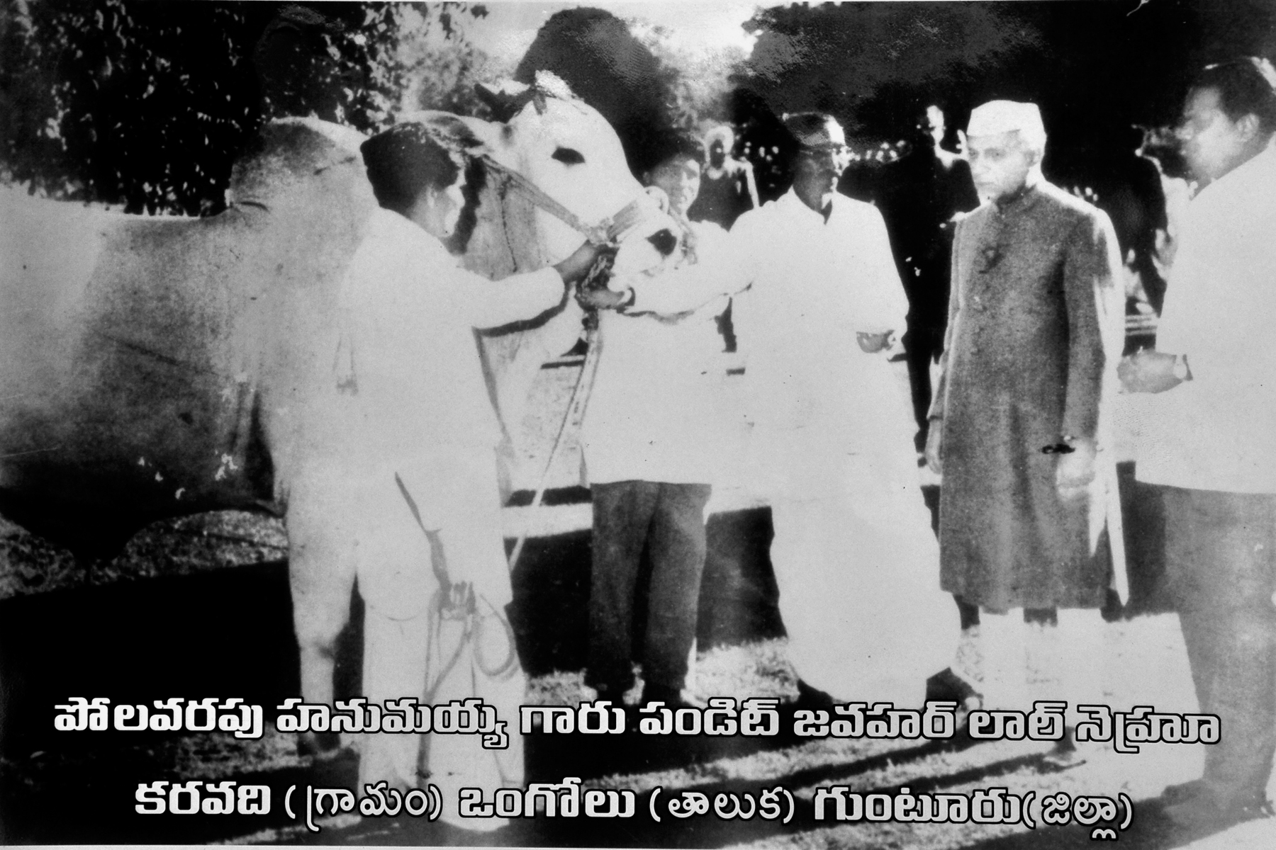 This Ongole Bull of Sri Polavarapu Hanumaiah (third from right) won national award 1961 - 62 . Pt. Nehru (second from right) the then Prime Minister of India.